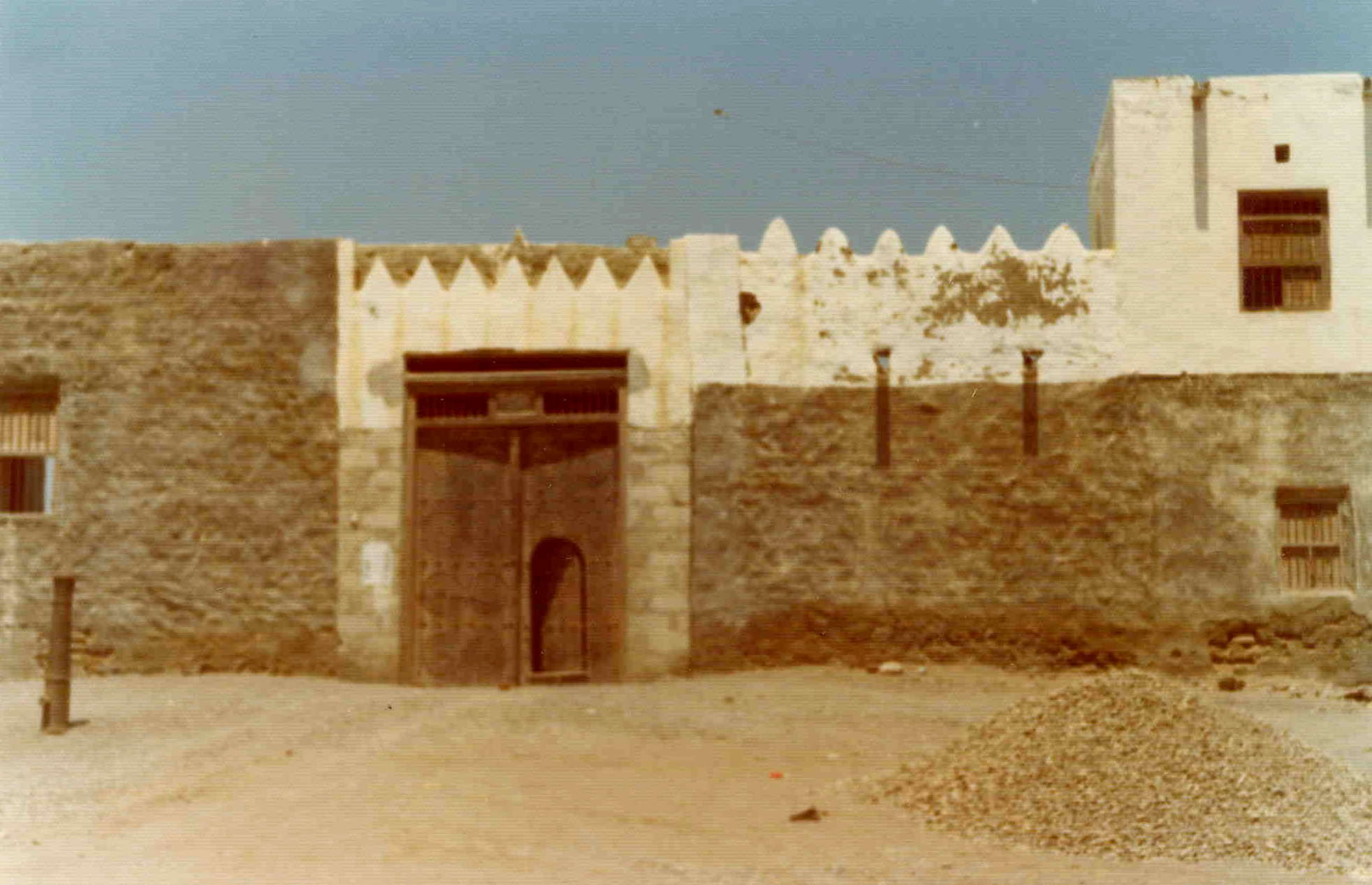 SOHAR - Entrance to the Fort.